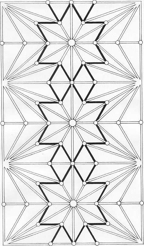 Drawing of the lierne at Ely Cathedral